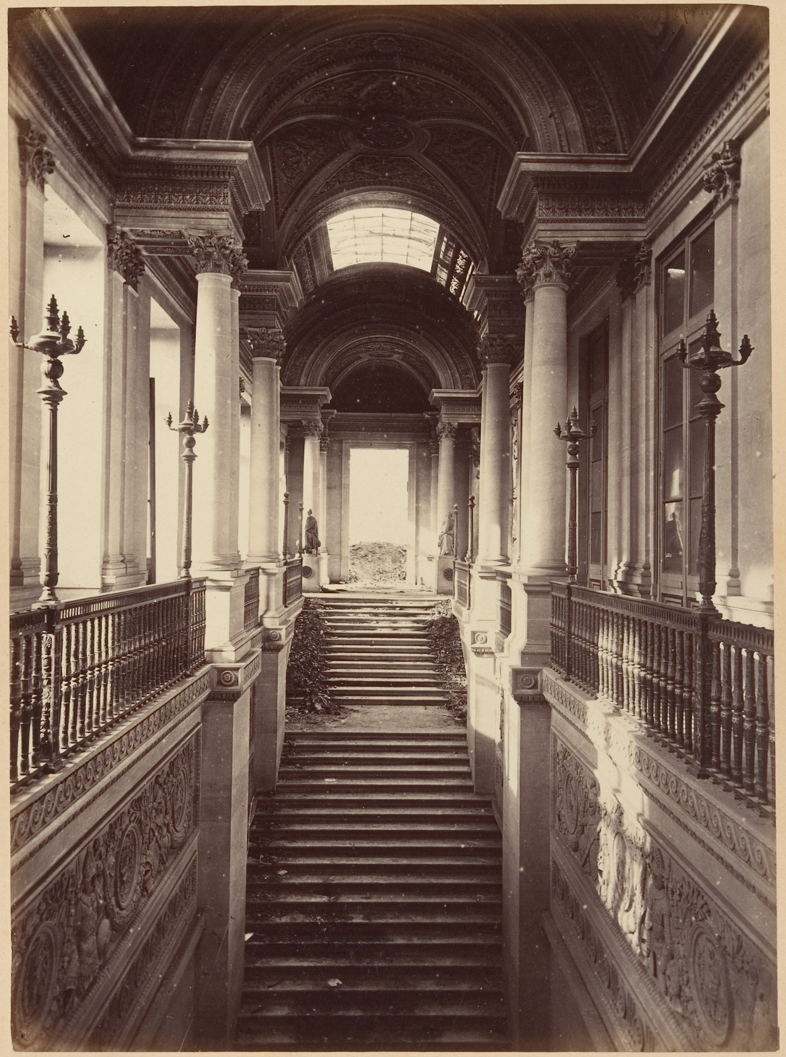 Les Ruines de Paris et de ses Environs 1870-1871: Cent Photographies: Premier Volume. Par A. Liébert, text par Alfred d'Aunay. Author: Alfred d'Aunay (French) Date: 1870–71 Medium: Albumen silver prints from glass negatives Dimensions: Images approx.: 19 x 25 cm (7 1/2 x 9 13/16 in.), or the reverse Mounts: 32.8 x 41.3 cm (12 15/16 x 16 1/4 in.), or the reverse Classification: Albums Credit Line: Joyce F. Menschel Photography Library Fund, 2007 Accession Number: 2007.454.1.1–.33